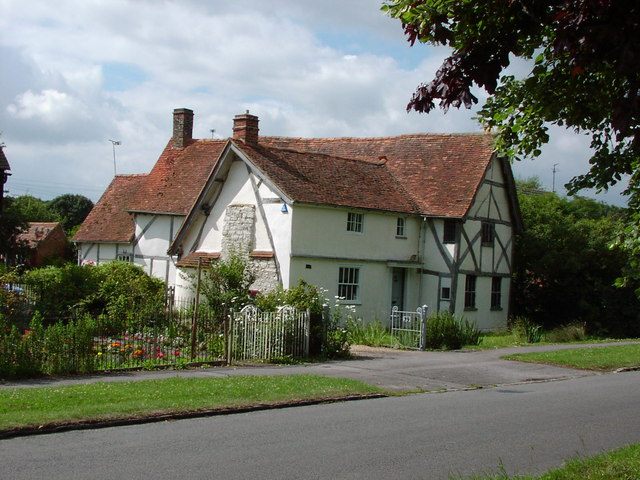 39 The Causeway, Steventon, Oxfordshire (formerly Berkshire). The visible cruck (A-frame) in the nearest gable wall is one of three in the original wing of the cottage built in April 1415, dated from the dendrochronology of a cruck beam. The stone chimney was inserted later.